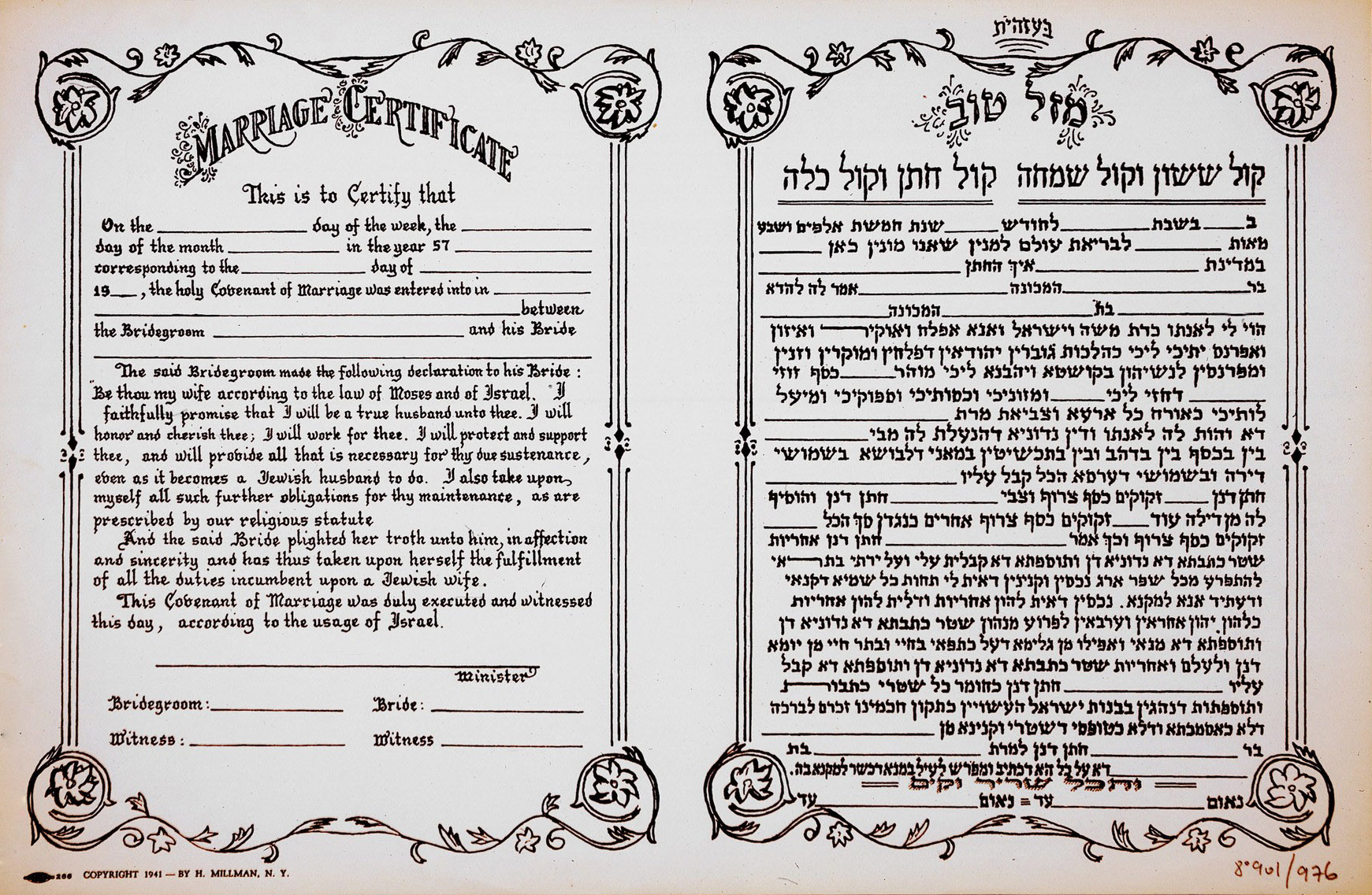 Ketubah from The Ketubot Collection of the National Library of Israel